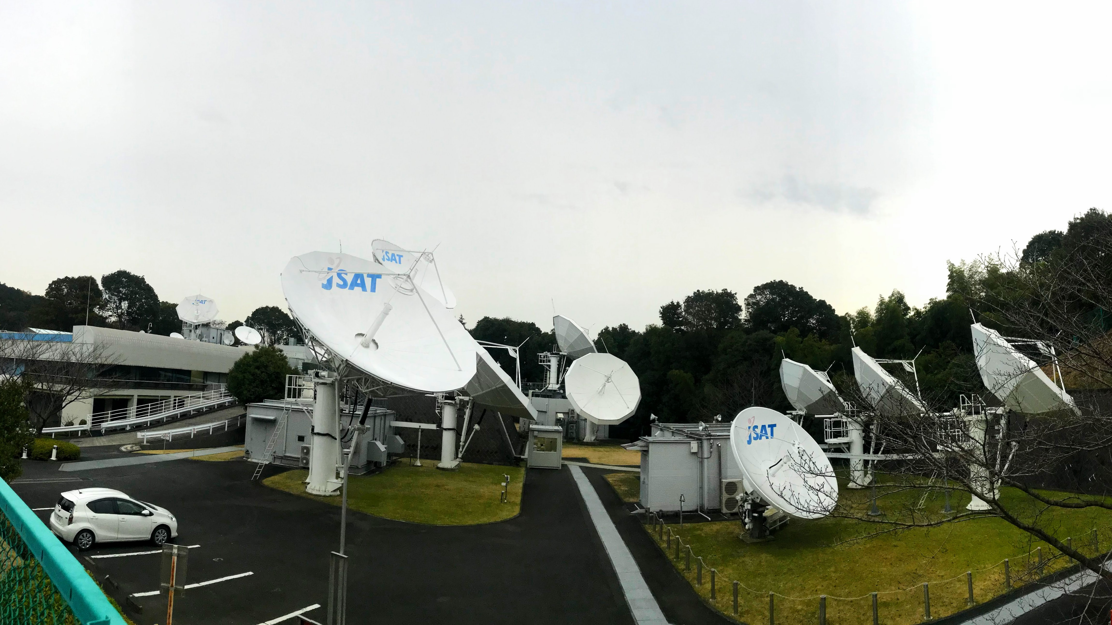 Antennas on the satellite port side in SKY Perfect JSAT Yokohama Satellite Control Center (YSCC).